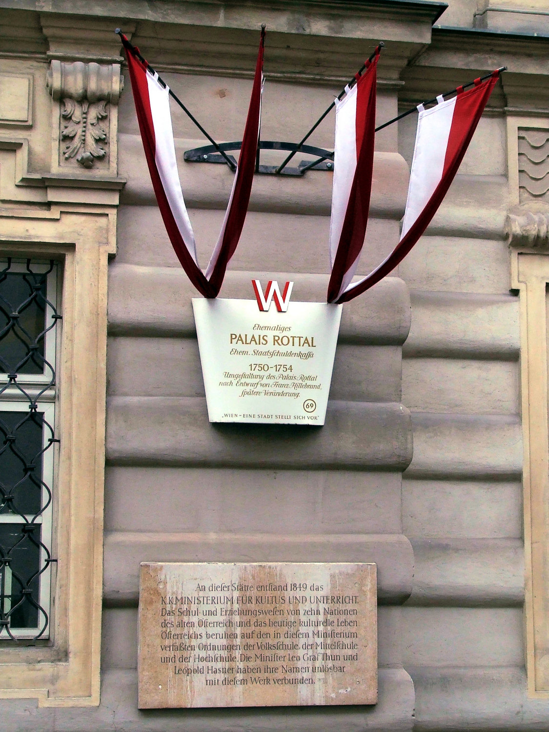 Informationstafel(n) angebracht am Palais Rottal.